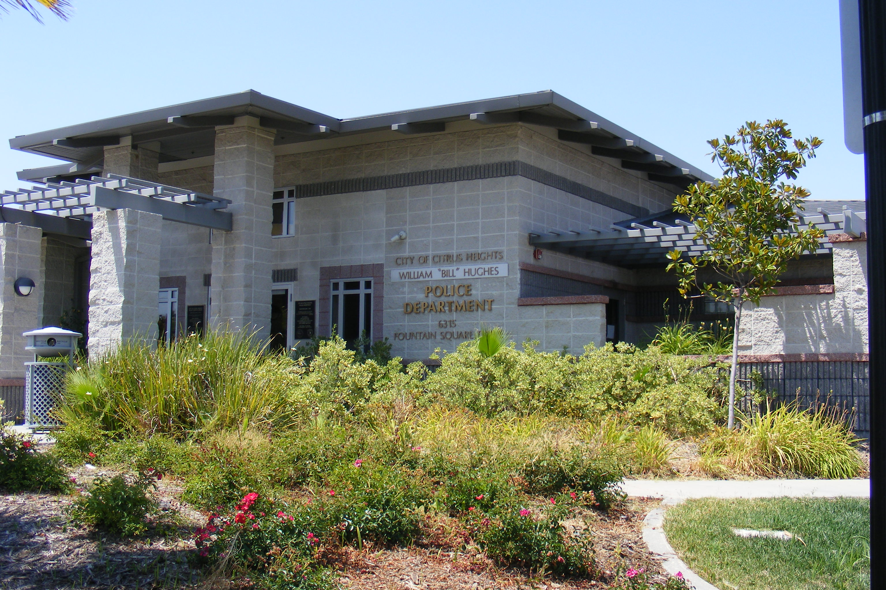 Citrus Heights, California - police department office.